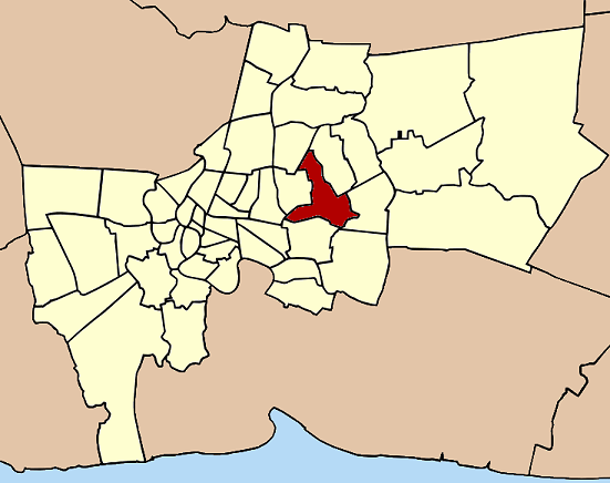 Map of Bangkok, Thailand, highlighting the district (khet) Bang Kapi (บางกะปิ)